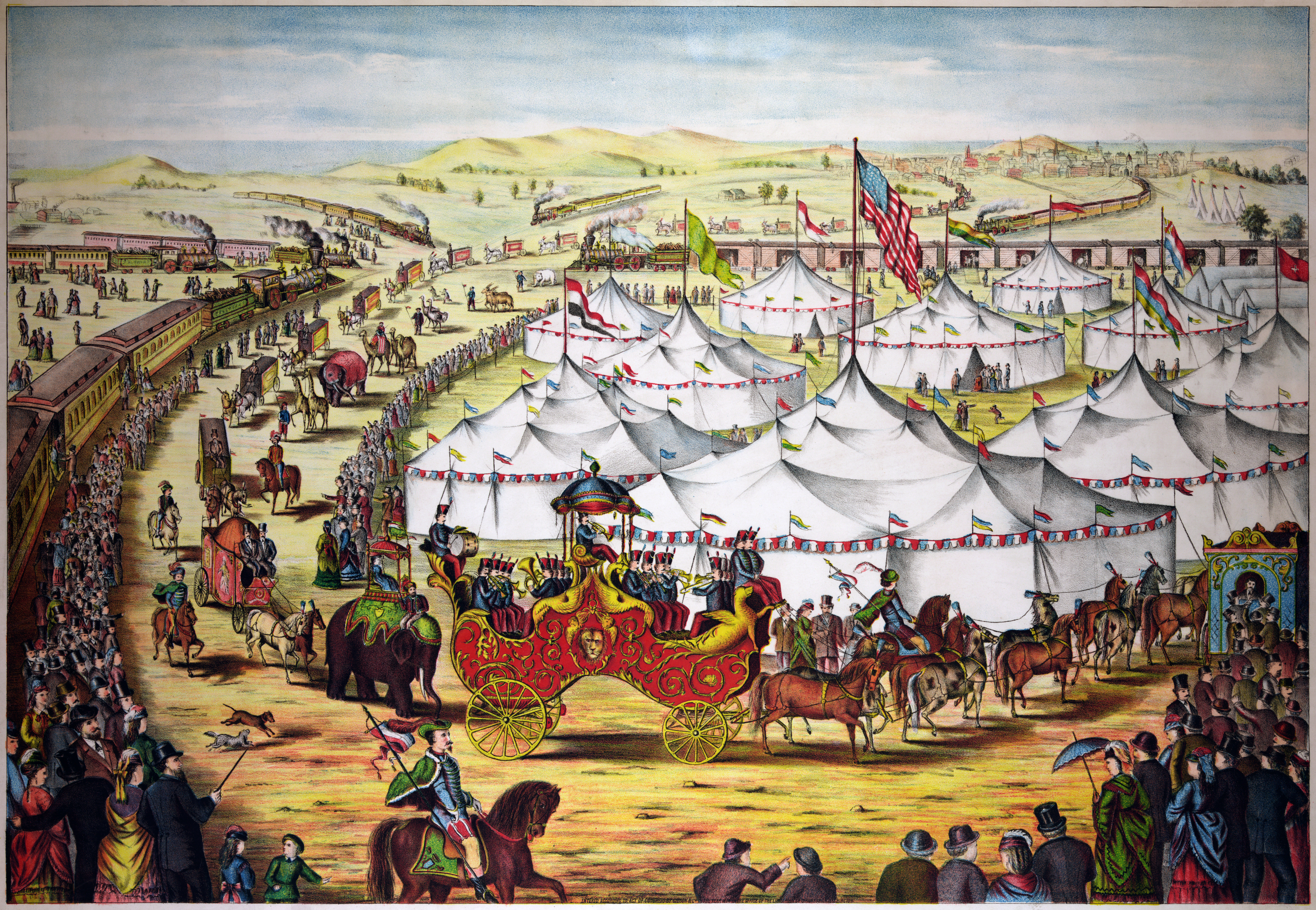 The grand lay-out. Circus parade around tents, with crowd watching alongside railroad train.